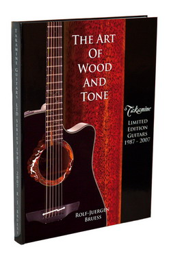 A photograph I took from the book I wrote and edited. I own all copyrights and content rights